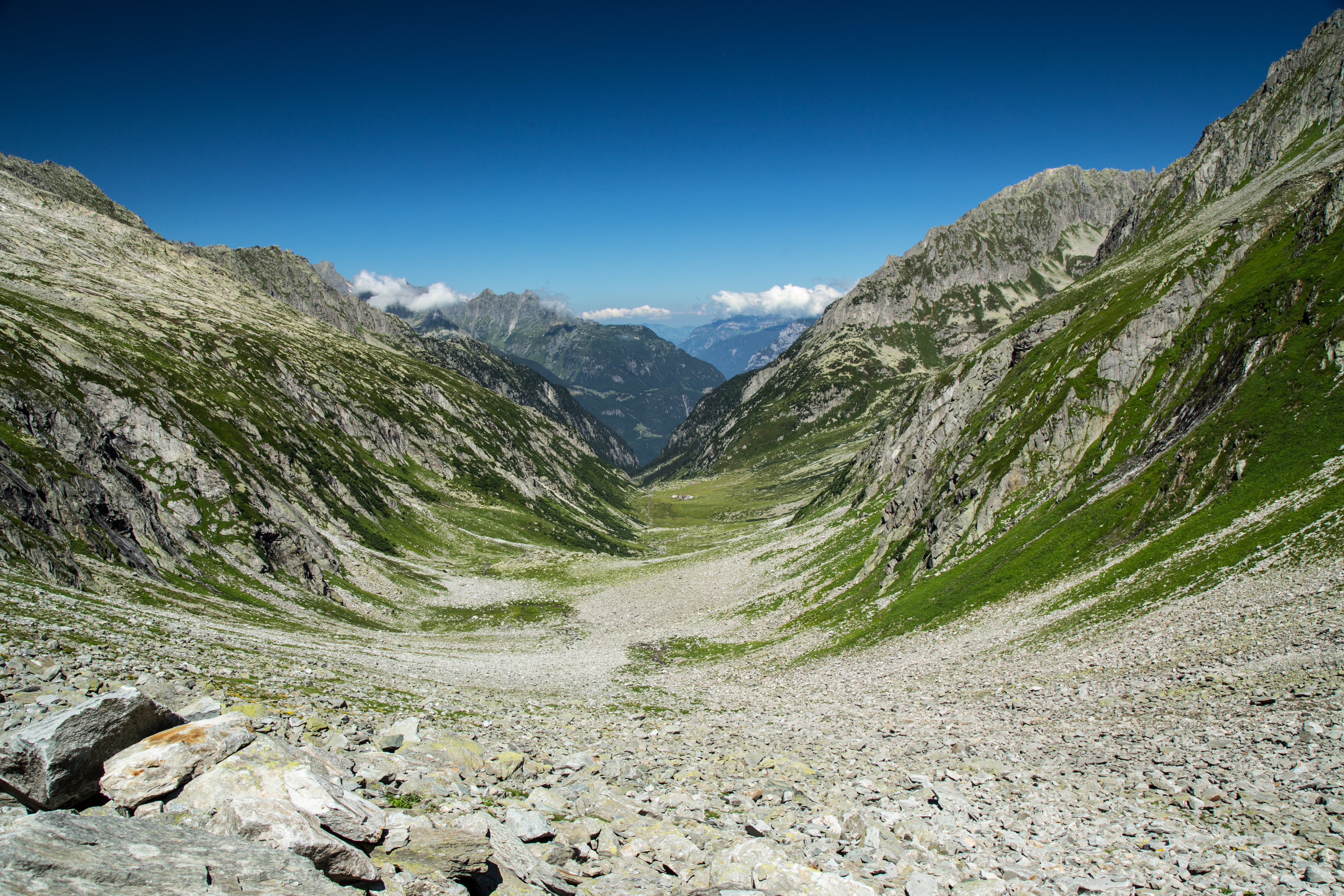 View into the Fellital valley from the ascent to the Fellilücke pass